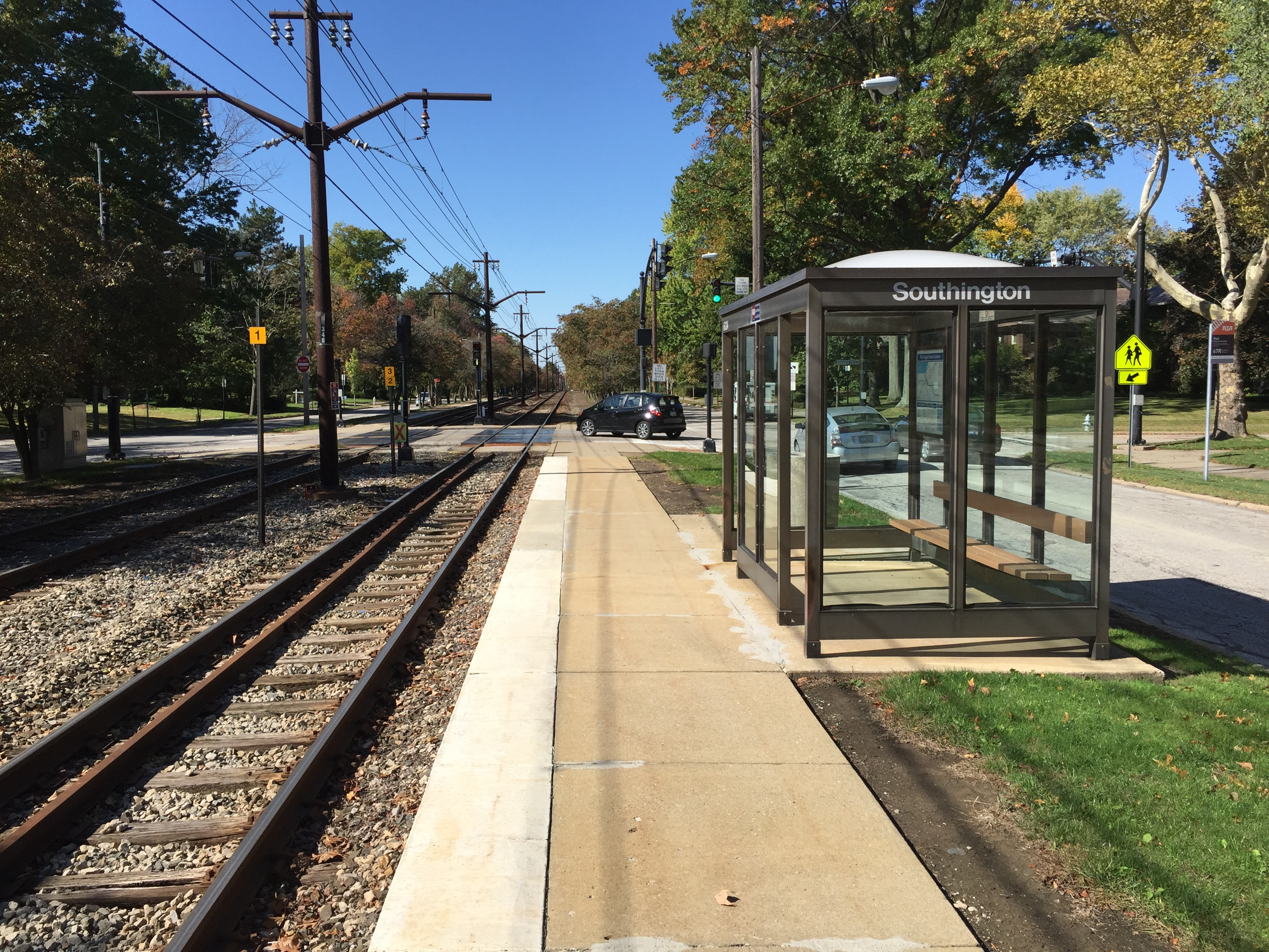 Southington Rapid Station on the Green Line of the Cleveland RTA Rapid Transit in October 2015